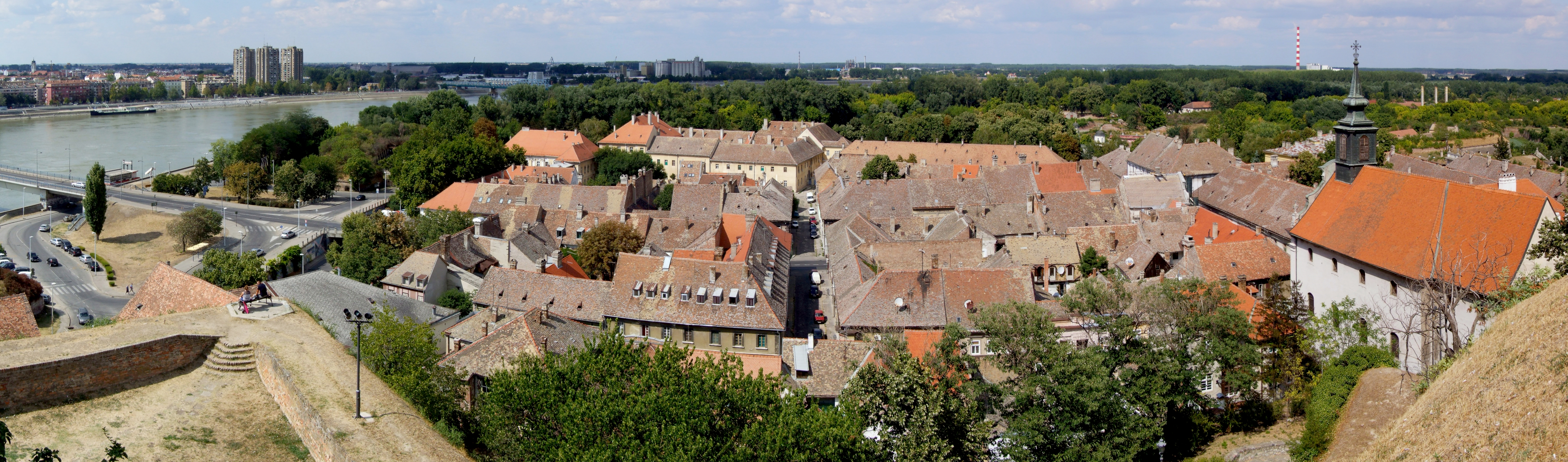 Petrovaradin (Peterwardein, Pétervárad), Vojvodina - view from the fortress 54″ N, 19° 51′ 48.19″ E